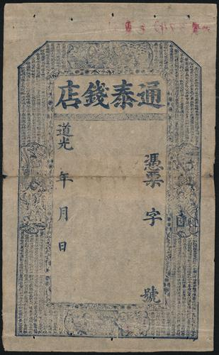 A Chinese banknote issued under the reign of the Manchu Qing Dynasty.